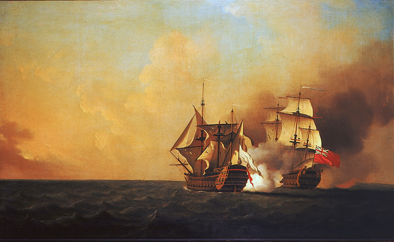 A depiction of a sea battle between HMS Nottingham and the French ship Mars in 1746. The Mars was returning to Europe after the failed 1746 Duc d'Anville Expedition attempting the recapture of the Fortress of Louisbourg.